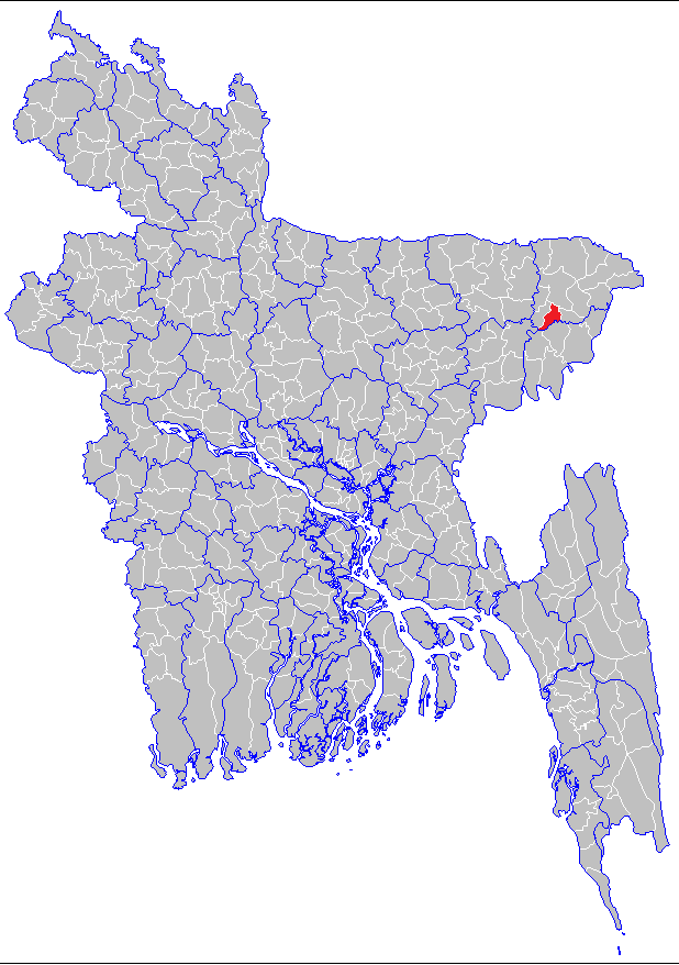 Location of Balaganj in Bangladesh